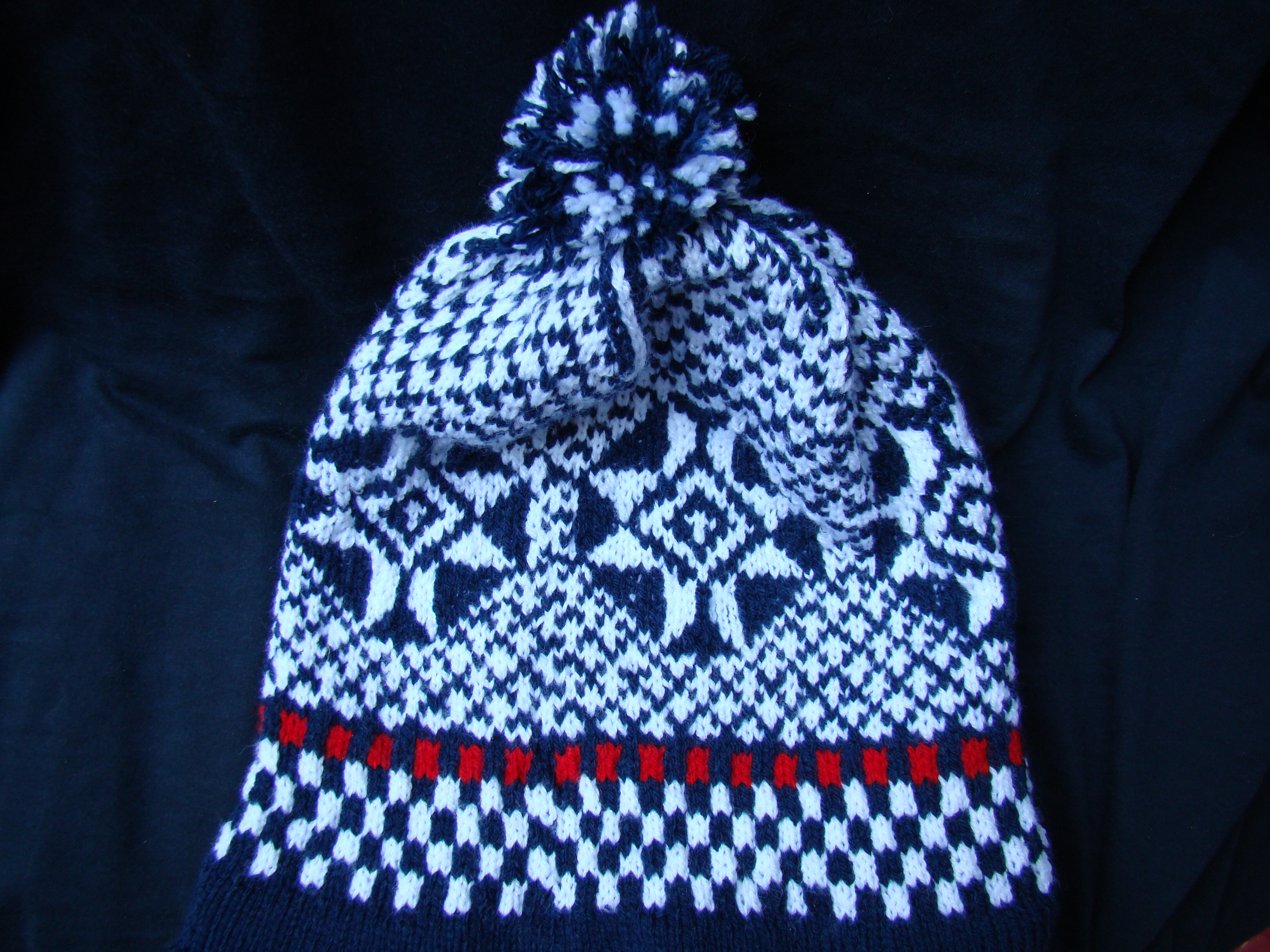 Woolen hat from Groenlo